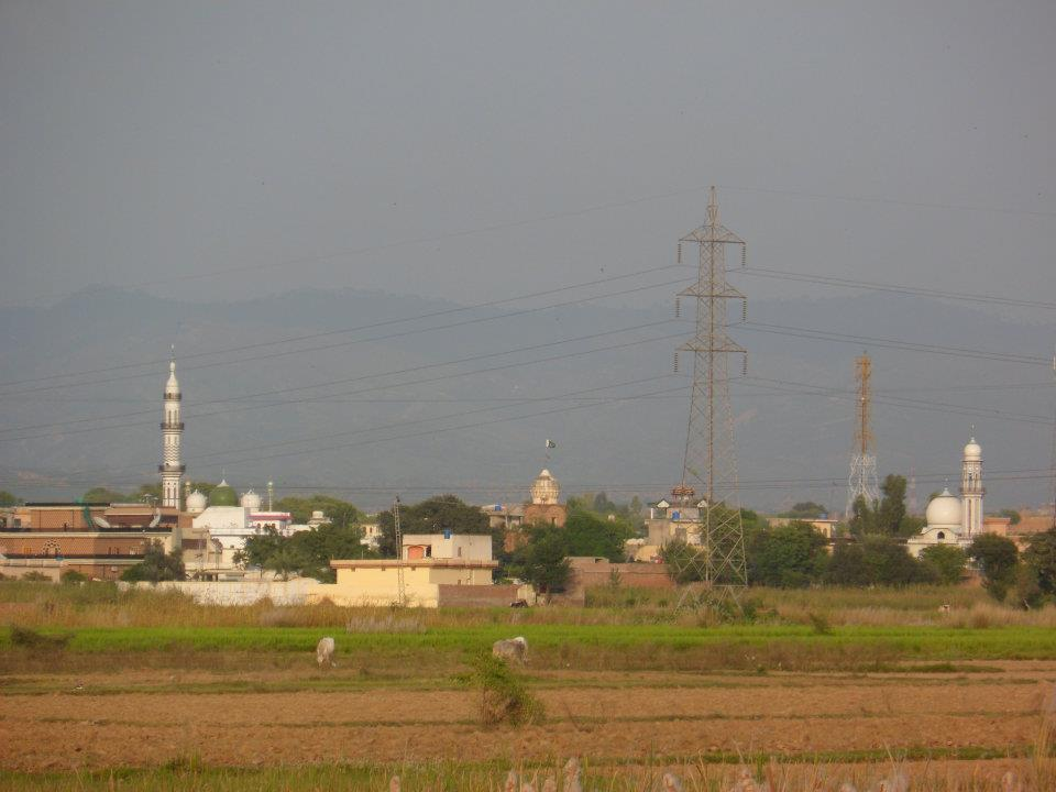 A full view of village Ali Baig